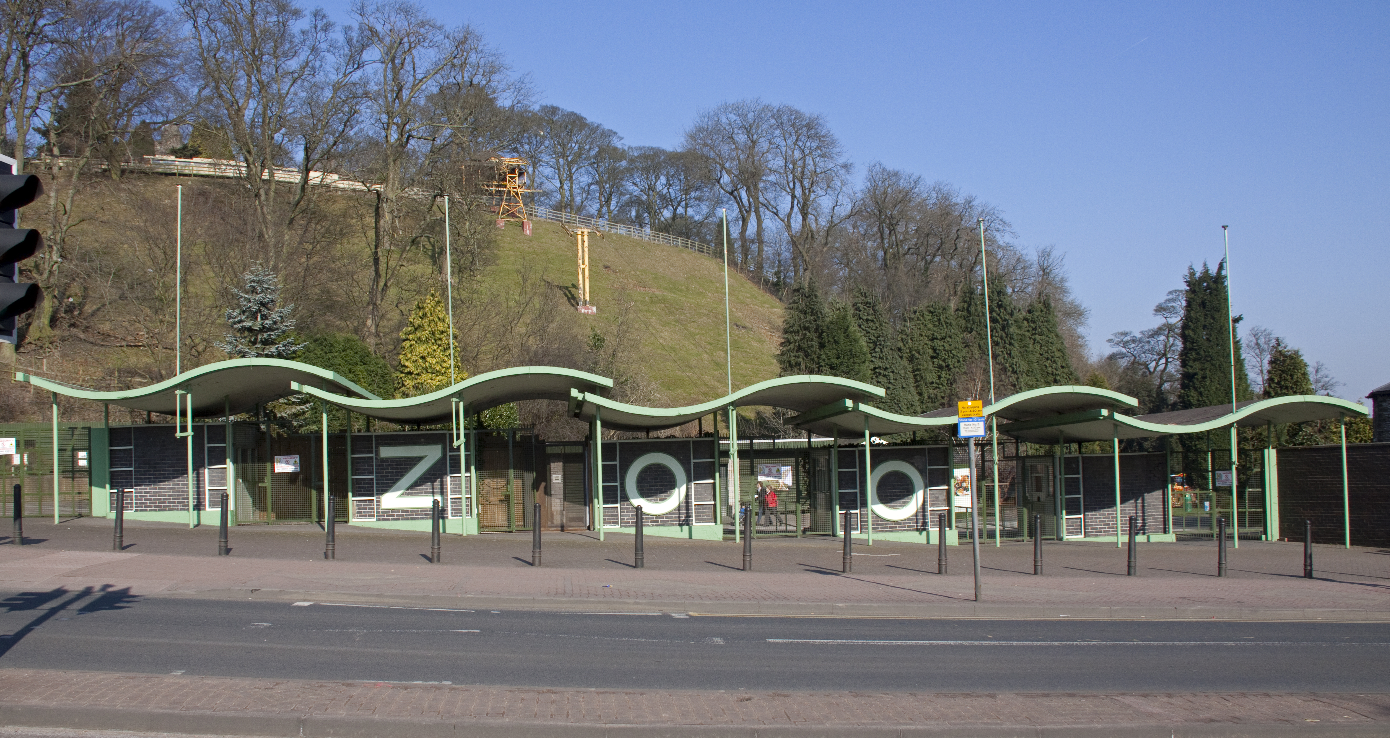 The entrance to Dudley Zoo, West Midlands, England.